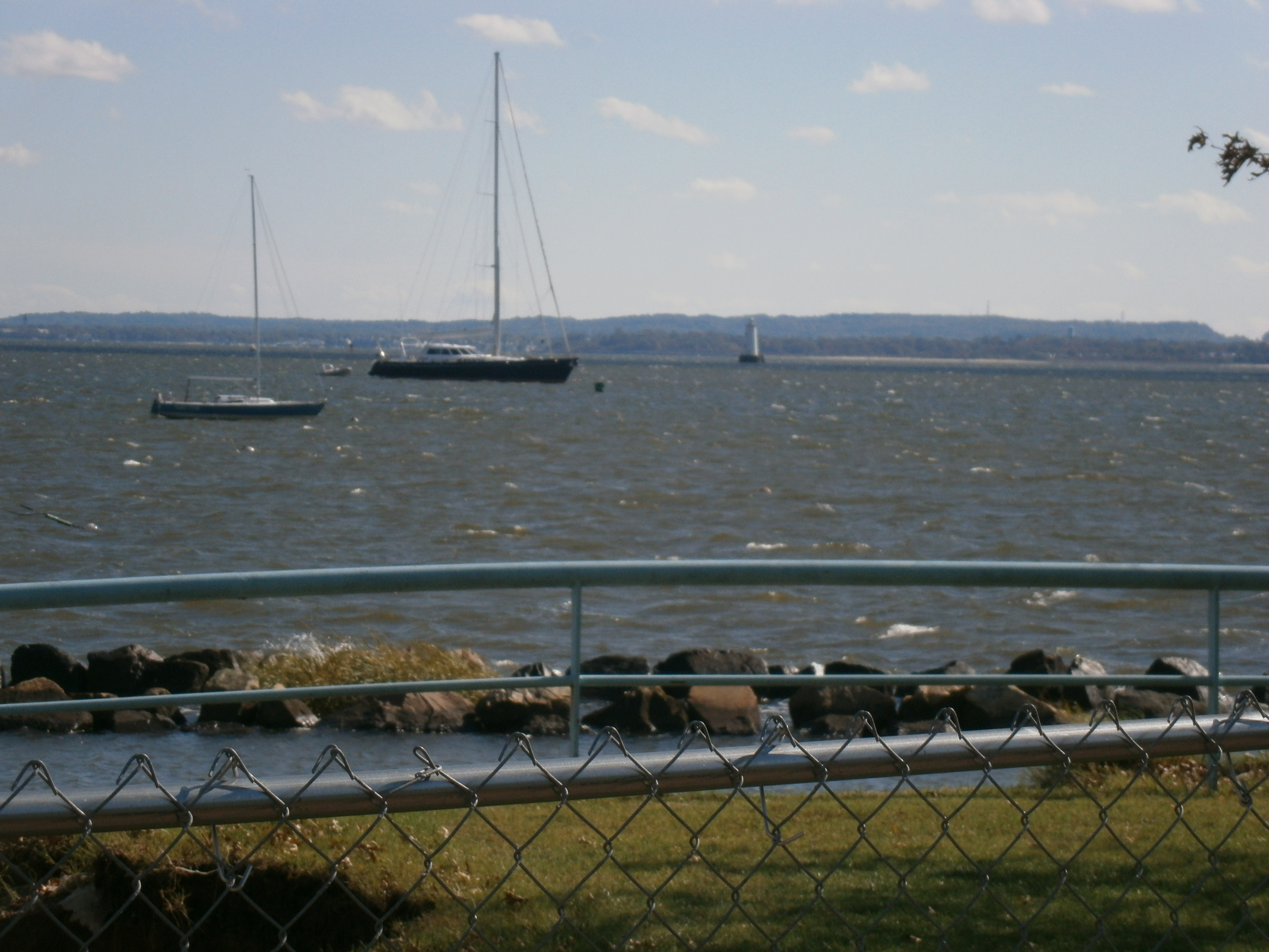 Perth Amboy waterfront on Raritan Bay near mouth of Raritan River looking to Great Beds Lighthouse